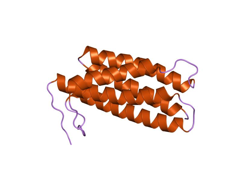 Cartoon representation of the molecular structure of protein registered with 1nog code.